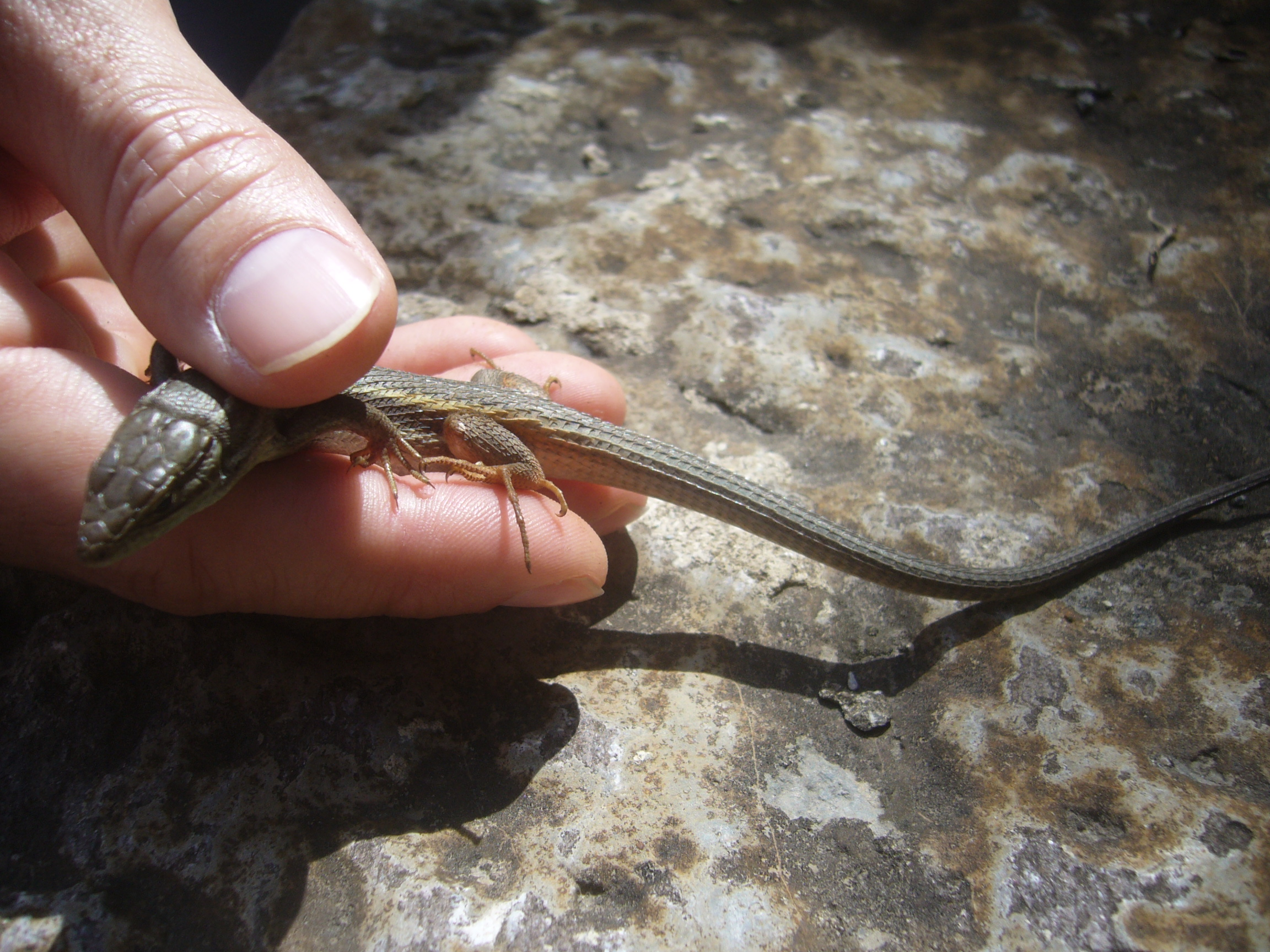 Psammodromus manuelae female in the Natural Park of Serra de Enciña de Lastra, Orense, Galicia, Spain.